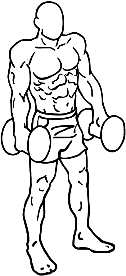 an exercise of traps